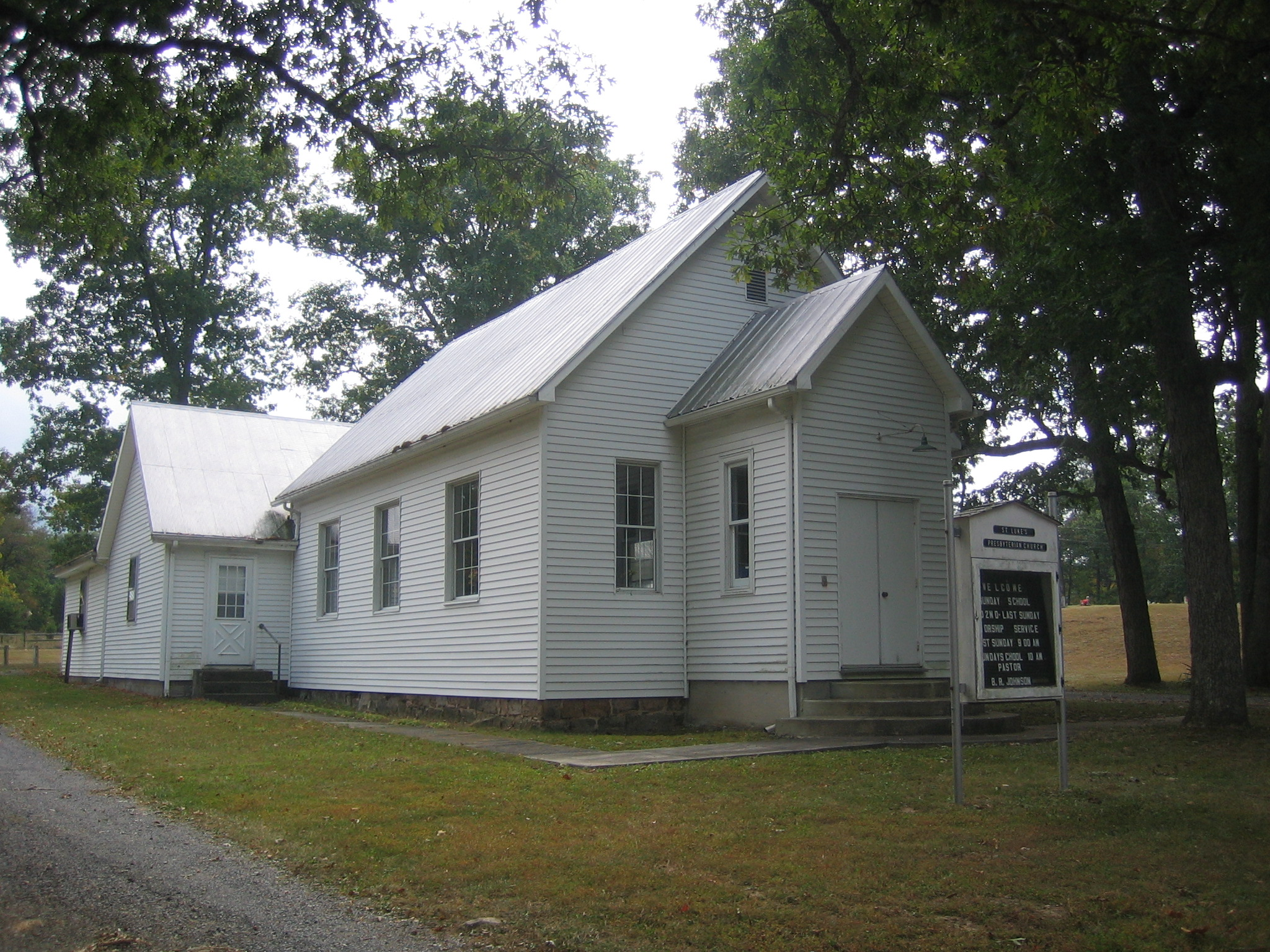 Saint Luke's Presbyterian Church (c. 1896) is a late-19th century church along South Branch River Road (County Route 8) near Glebe, West Virginia, United States.